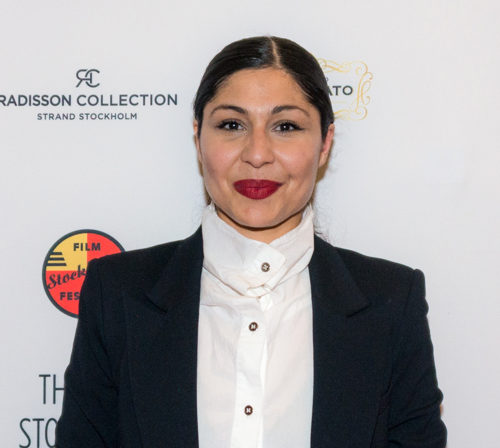 Bahar Pars during the Stockholm International Film Festival on November 9, 2018.